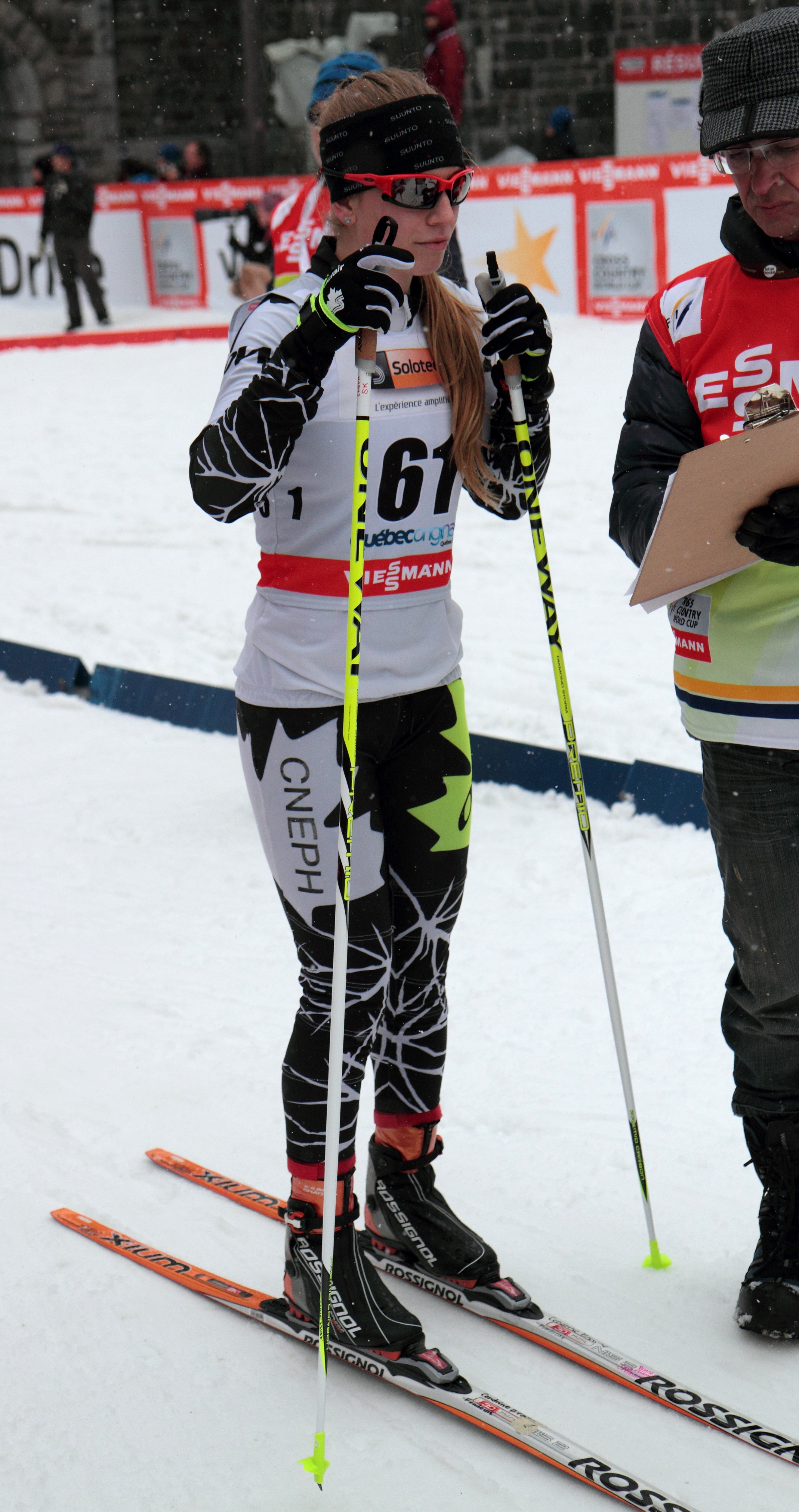 Cendrine Browne, FIS Cross-Country World Cup, 2012, Quebec, Canada